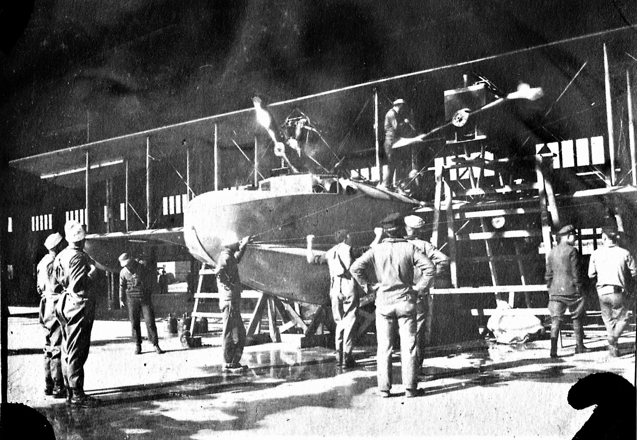 A U.S. Navy Curtiss NC-4 seaplane at Naval Air Station Lough Foyle, Ireland, in 1918.The U.S. Naval Air Station at Lough Foyle, Ireland, was established in July 1918 with Commander Henry D. Cooke in command. Lough Foyle was used for patrols over the North Channel entrance to the Irish Sea. The Northern Ireland station, located between County Londonderry and County Donegal was disestablished in February 1919.